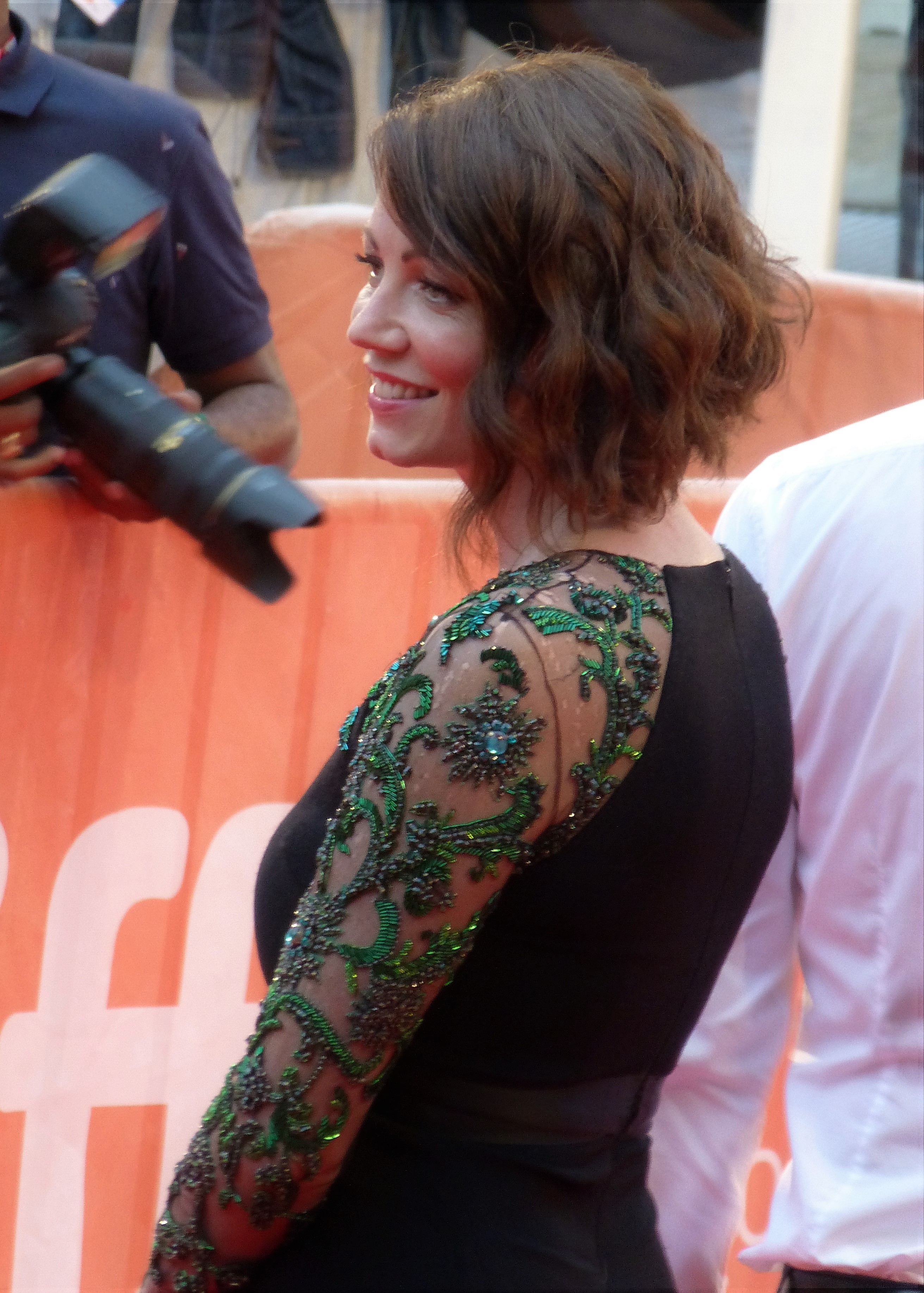 Jessica Oyelowo at the premiere of Queen of Katwe, 2016 Toronto Film Festival